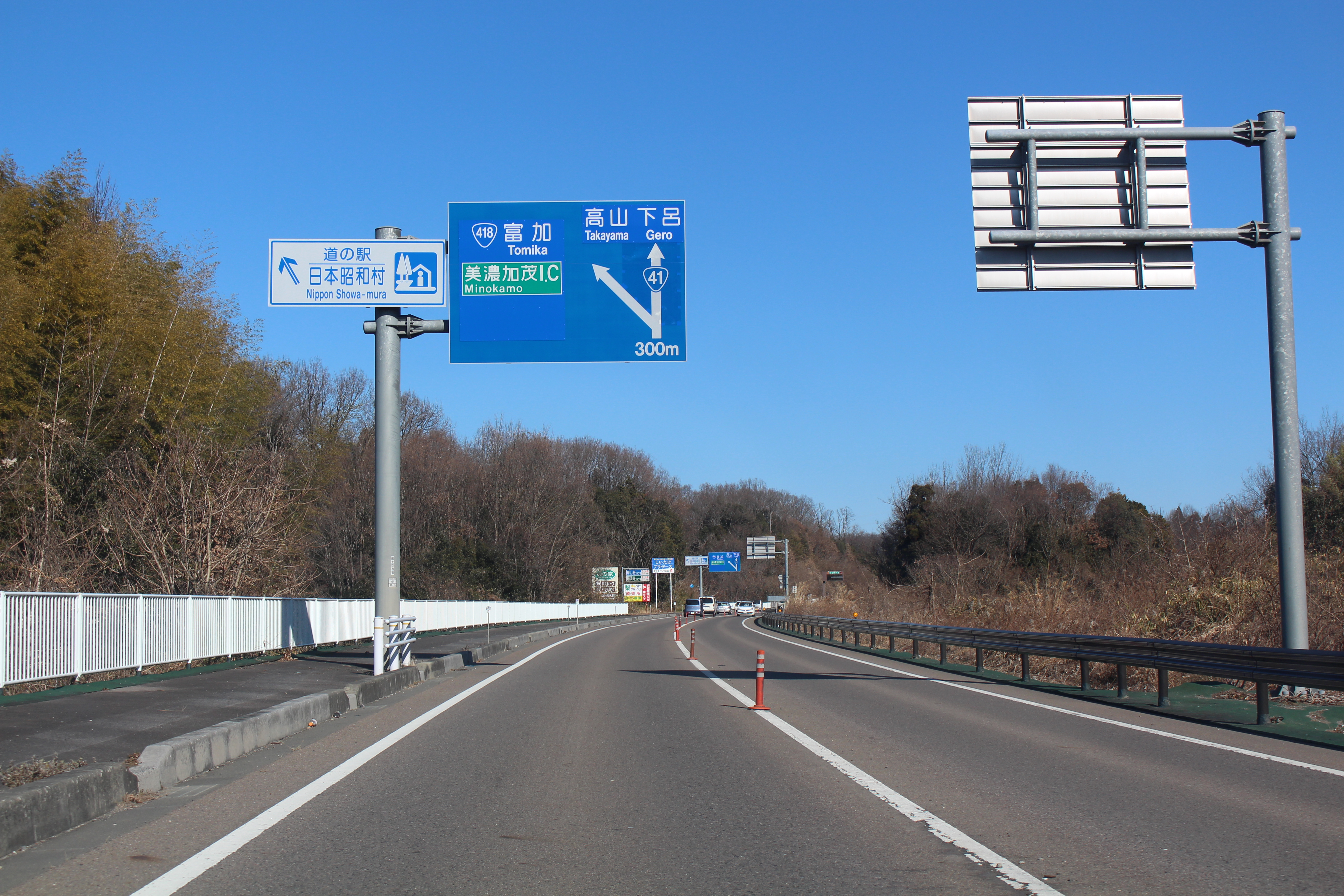 R41 Minokamo Bypass in Gifu prefecture, Japan.